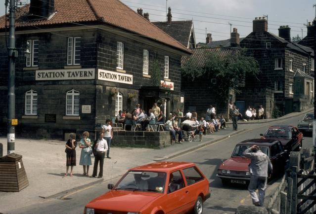 The Railway Tavern, Grosmont The view from a train departing for Pickering, almost the reverse of 166591, but also taken some 24 years earlier. A modern picture from the same viewpoint would make an interesting comparison.